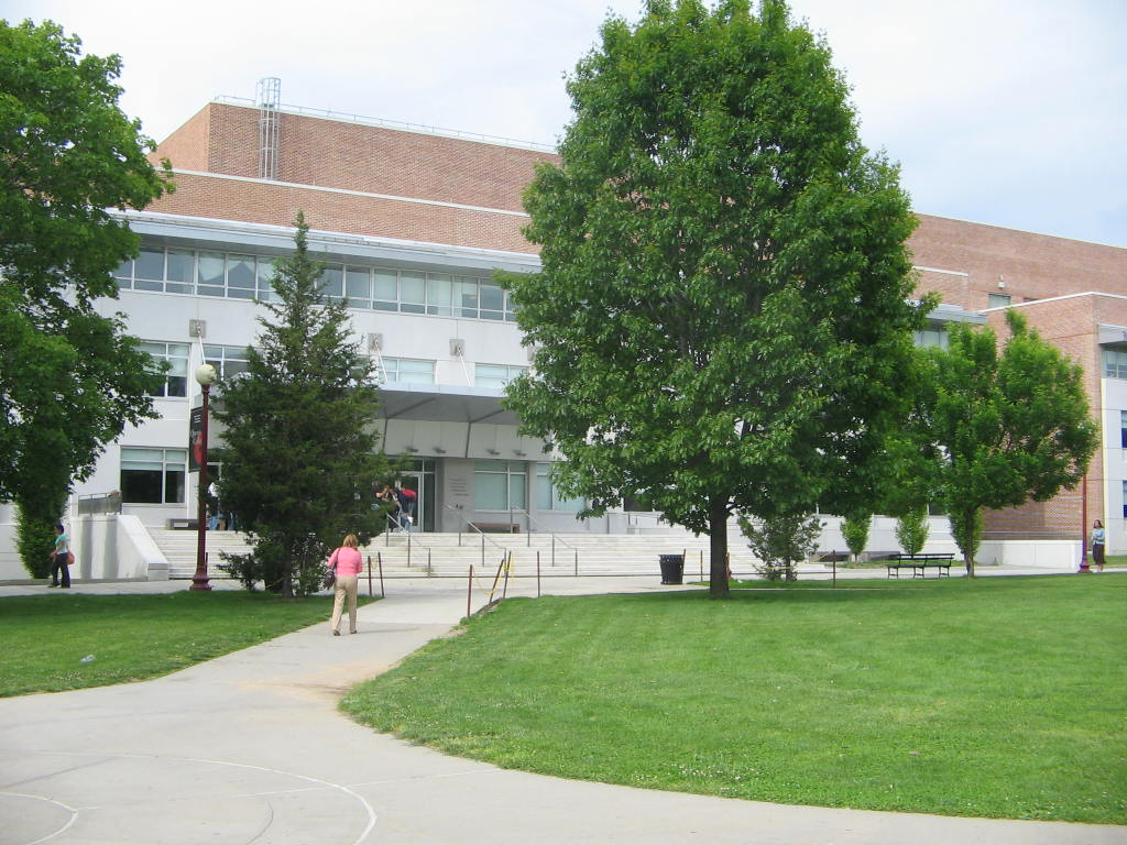 Powdermaker Hall, QC.